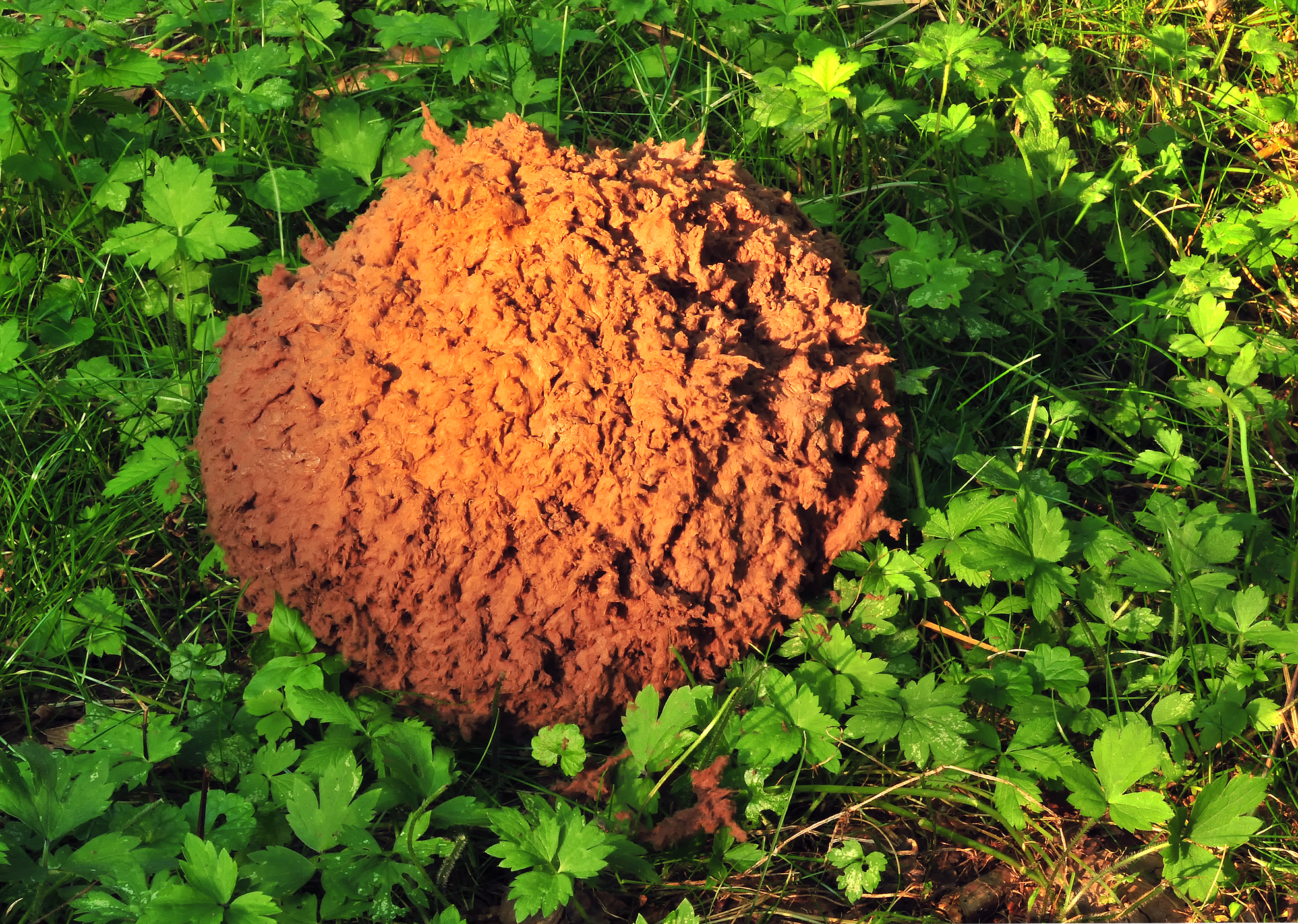 Old Giant puffball in the Wisentgehege Springe game park near Springe, Hanover, Germany